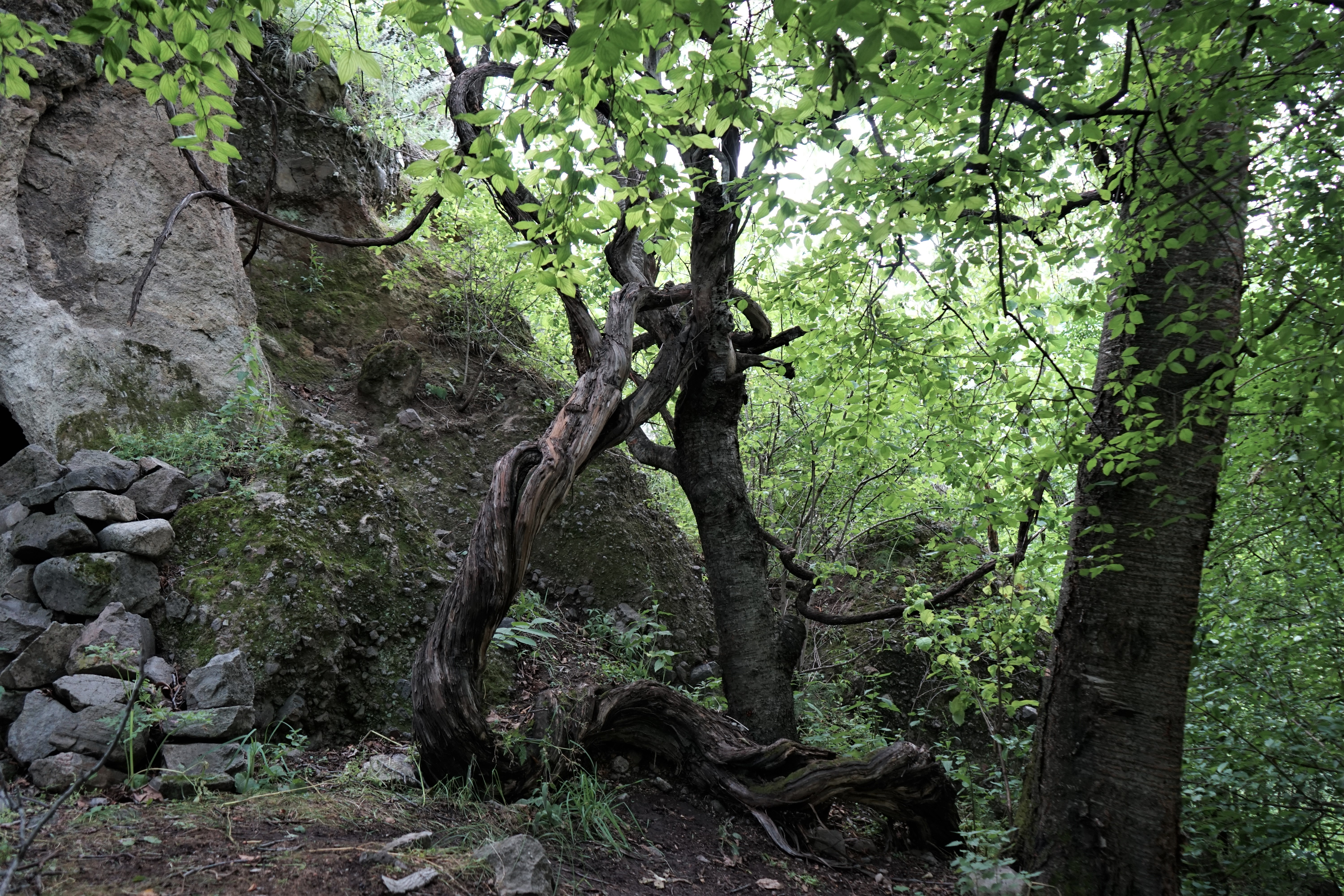 Four-century-old vine in Chachkari, Aspindza Municipality, Georgia